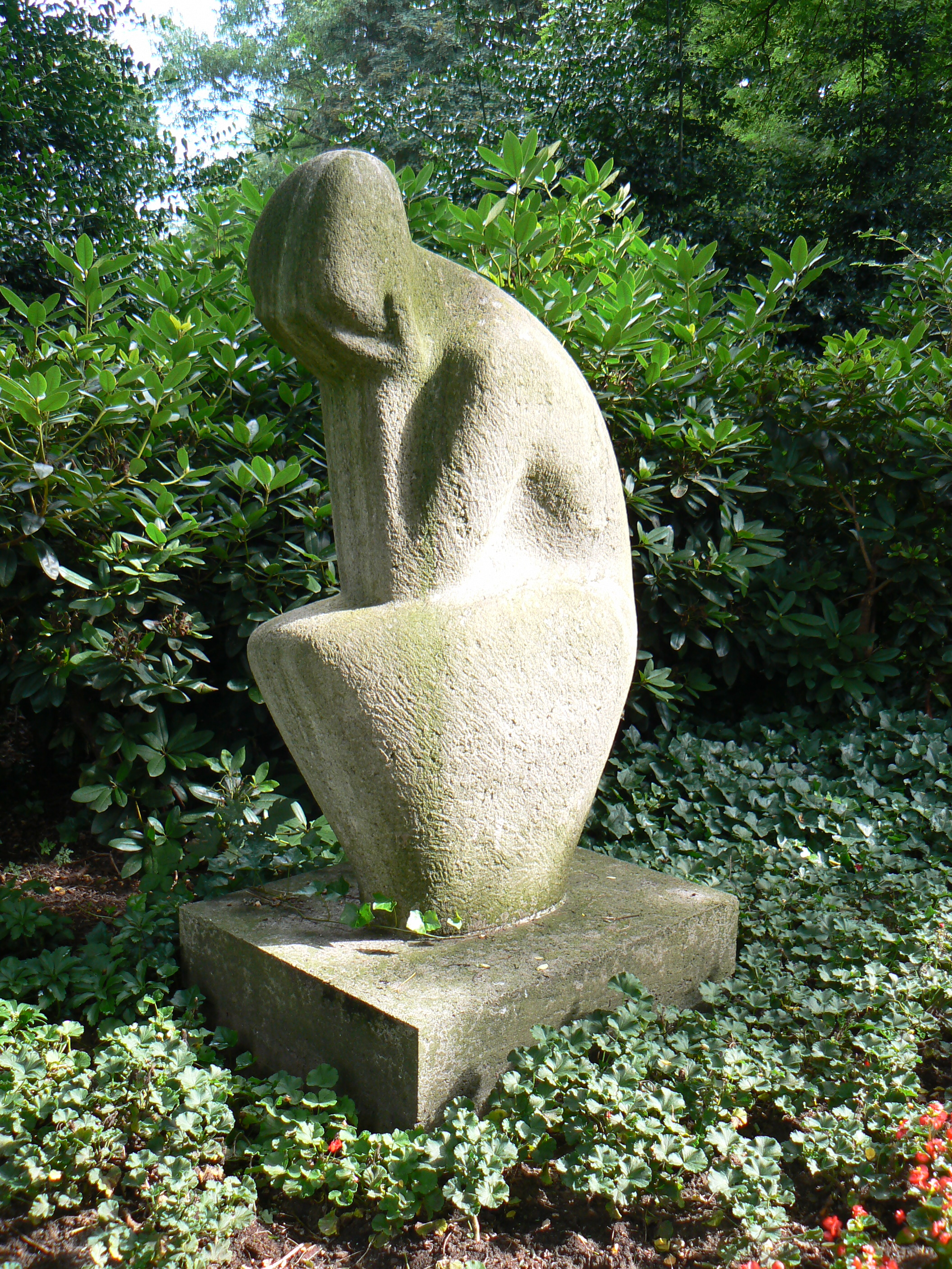 Collection: Skulpturenmuseum Glaskasten Location: City Center Marl/Germany Sculpture: Die Trauernde Sculptor: Hermann Breucker